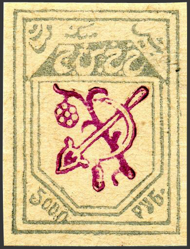 Postage stamp of the Khorezm People's National Republic, 1922.